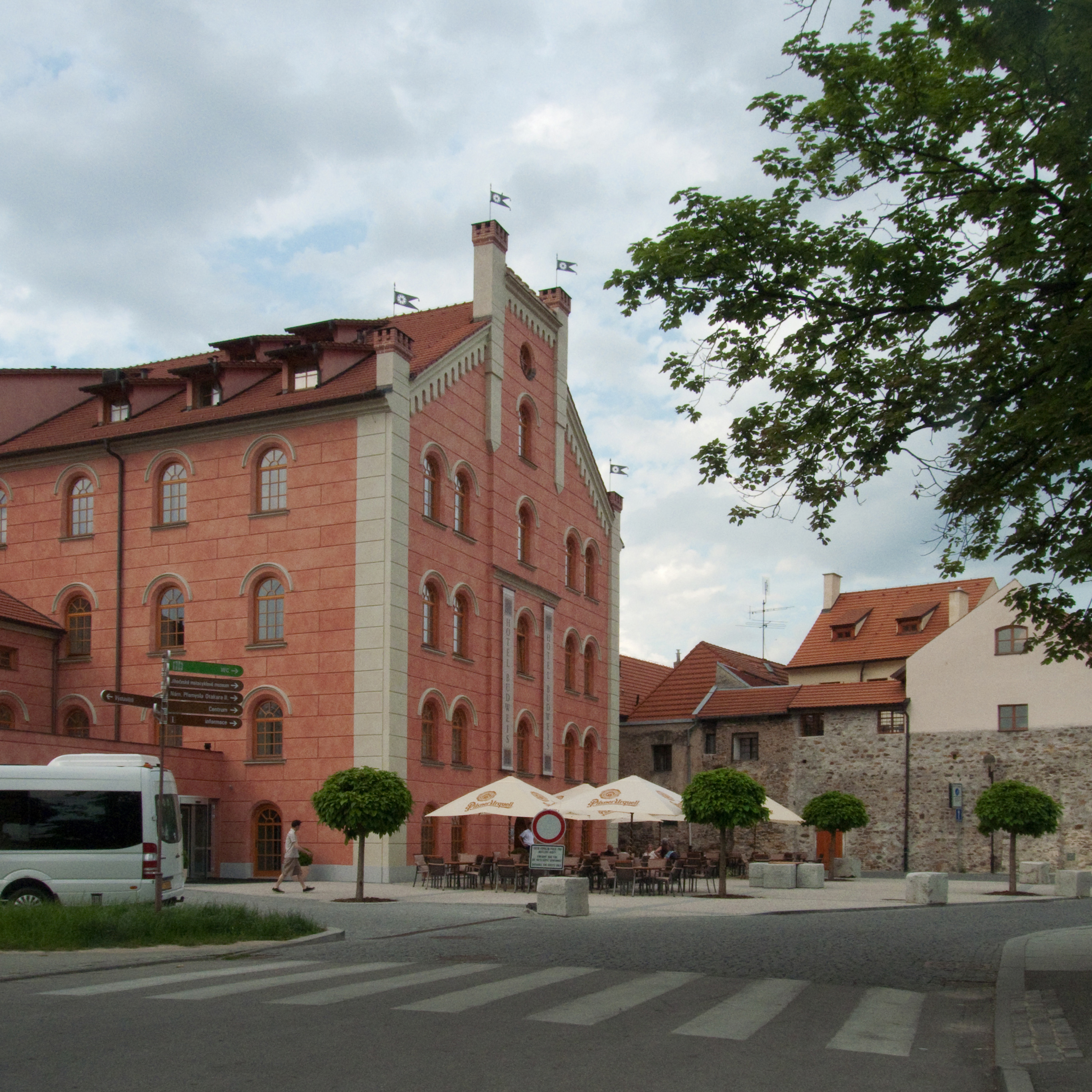 Budweis Hotel in Mlýnská St., České Budějovice, Czech Republic